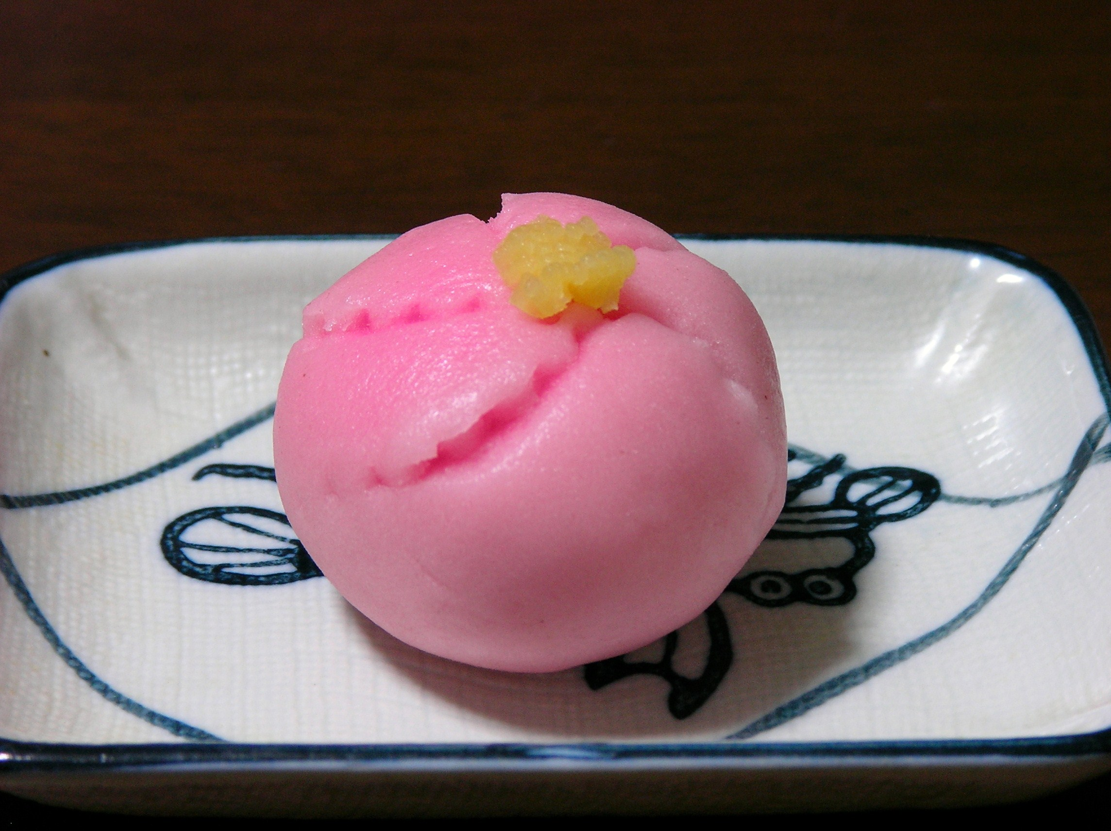 Nerikiri (fuyo), Japanese traditional confectionery (wagashi).